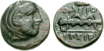 Bronce-Stater from Krenides/Peraia: Heracles/club and bow, 360-356 BC (Le Rider: Thasiennes 29), SNG Copenhagen 820401 (1,48 grams)